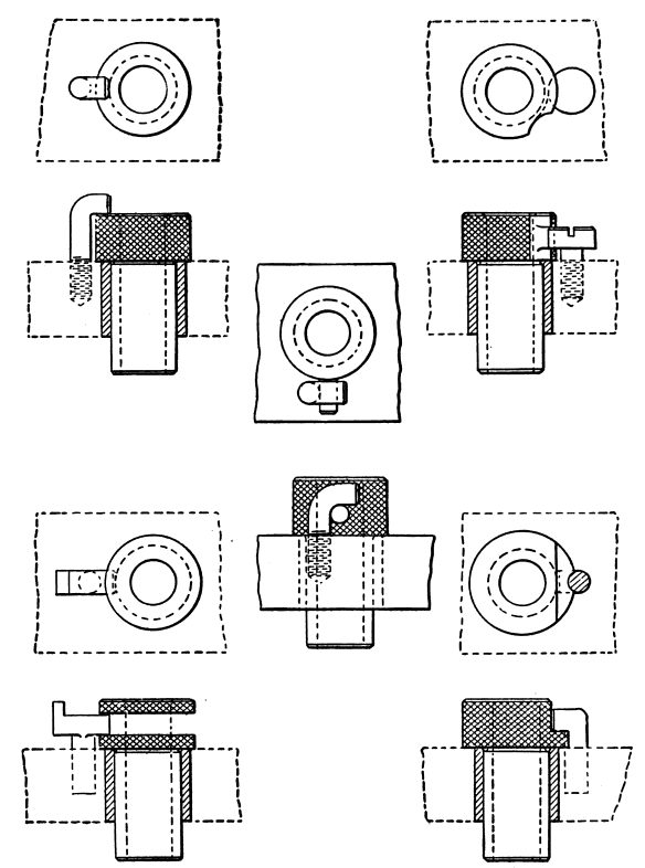 Five types of locking methods for renewable bushings.